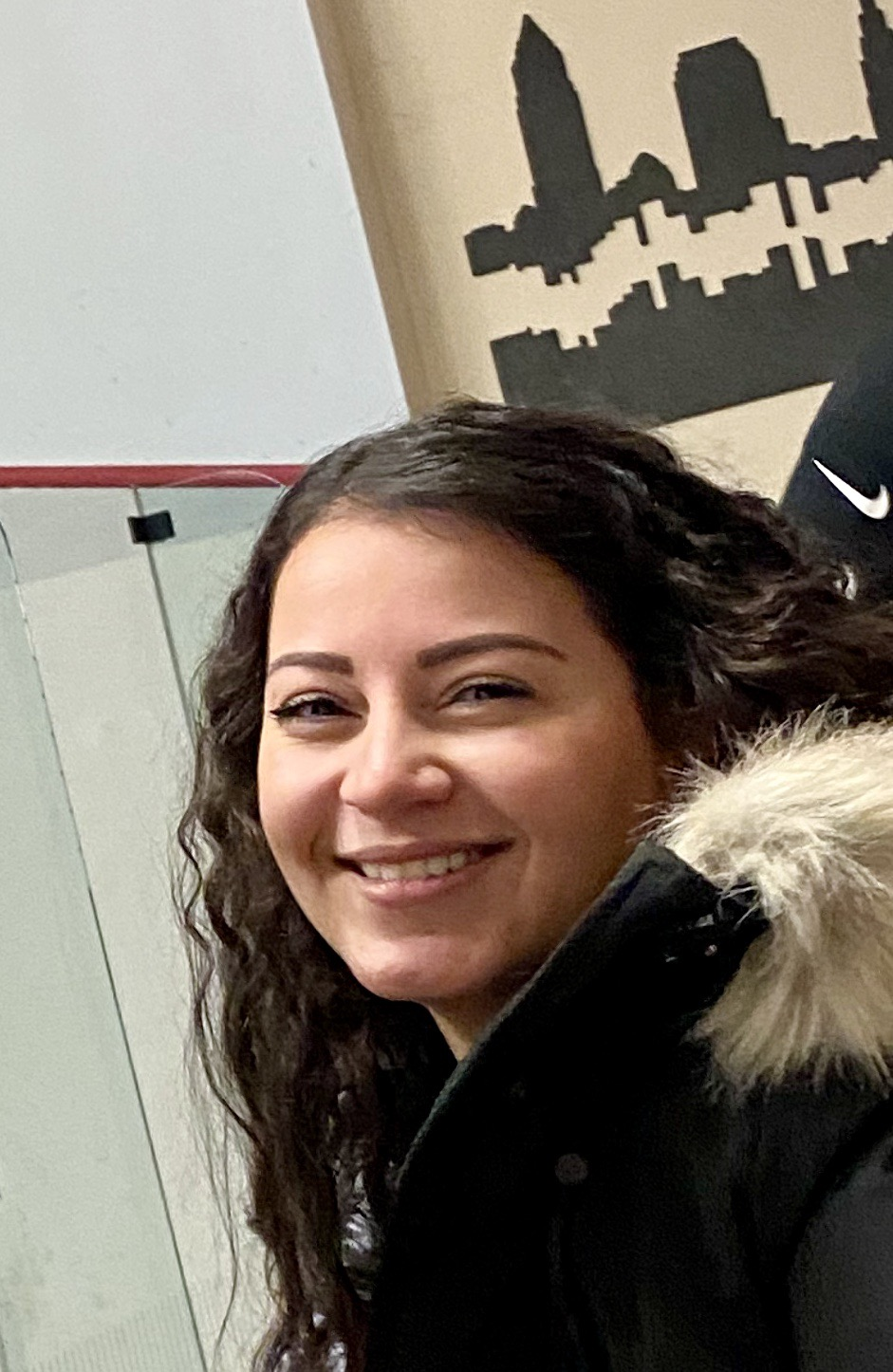 Salma Youssef at Cleveland Racquet Club, The Cleveland Classic 2020